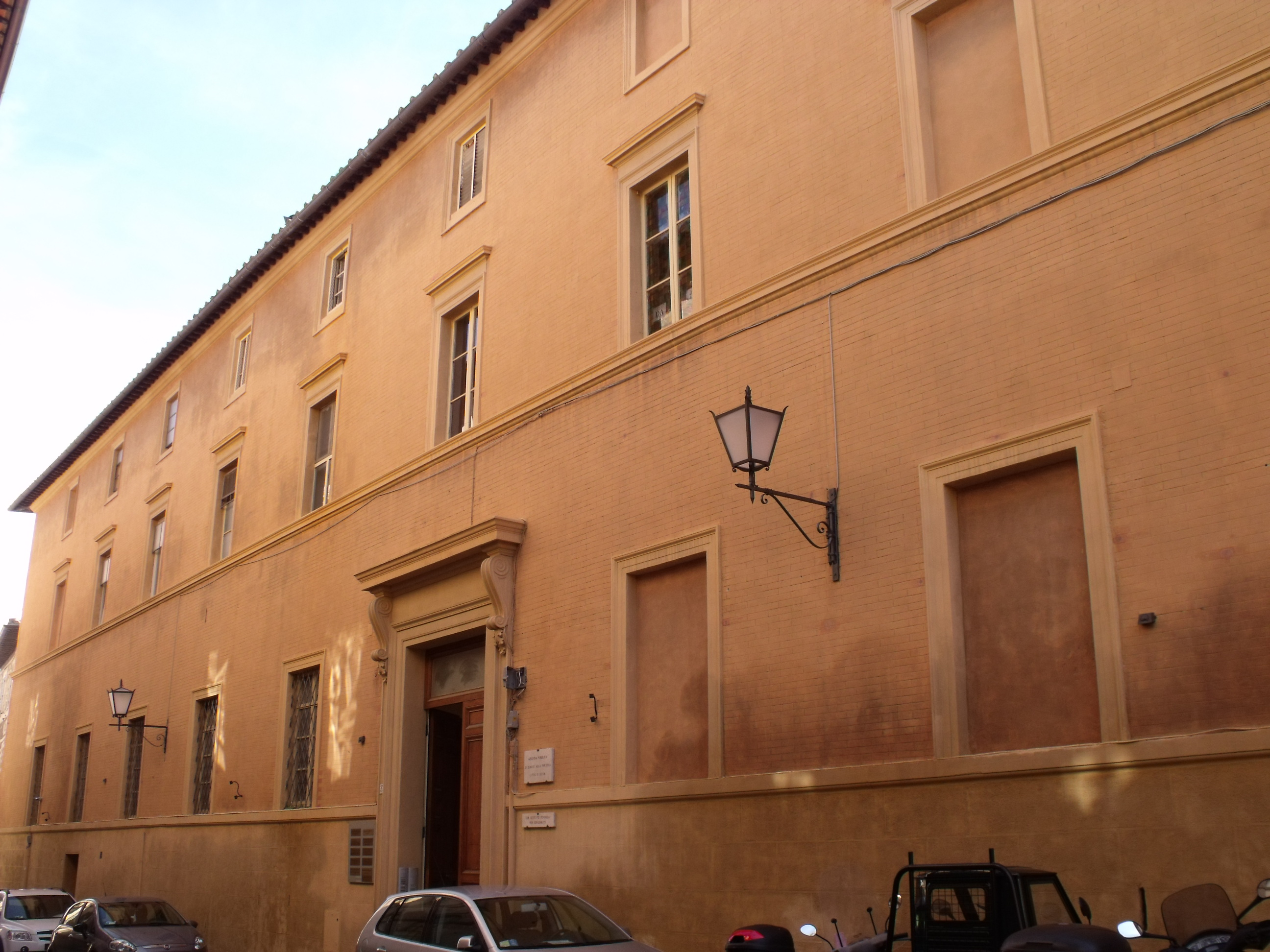 Institute of Tommaso Pendola, Via Tommaso Pendola in Siena